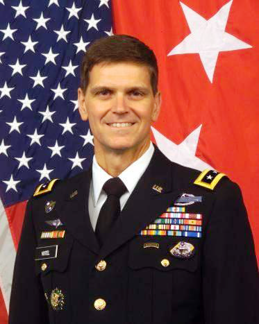 Official Department of the Army photo of Lieutenant General Joseph Votel